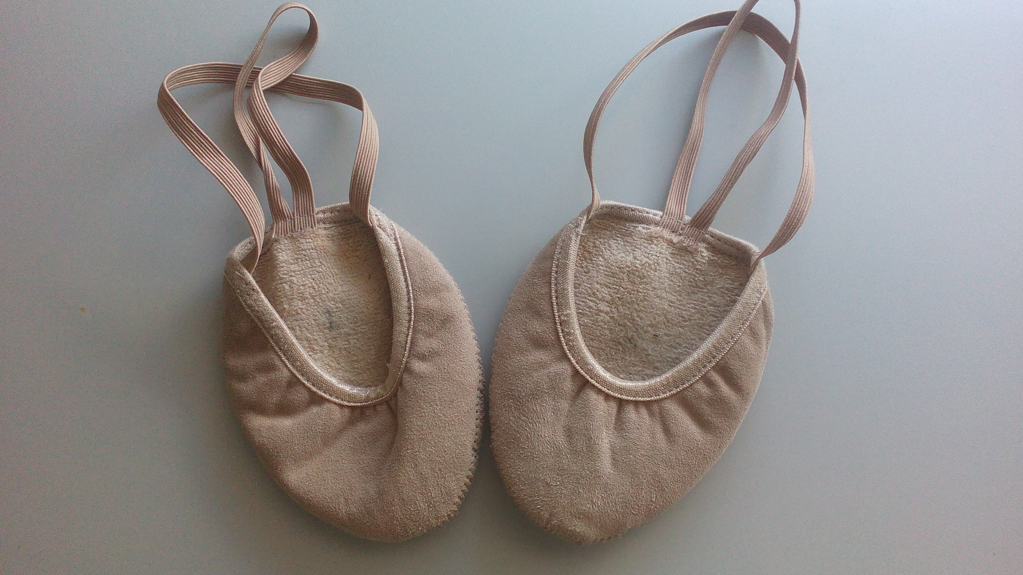 Punteras